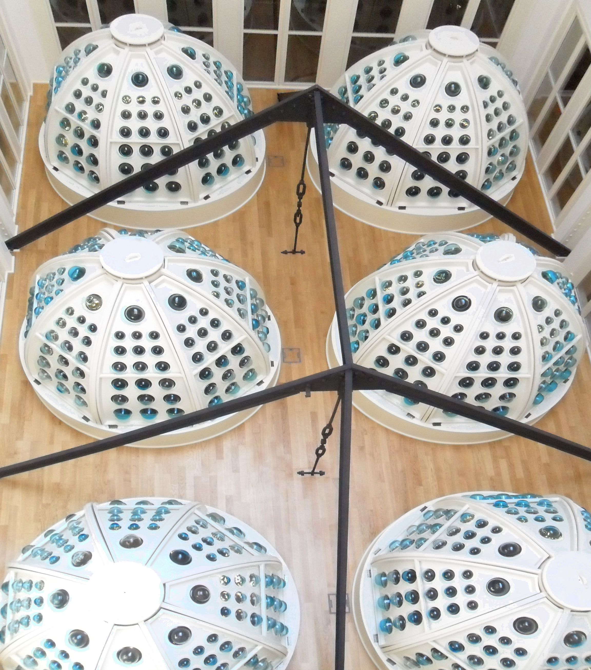 Pera Palace Hotel: the six domes at the base of the open space